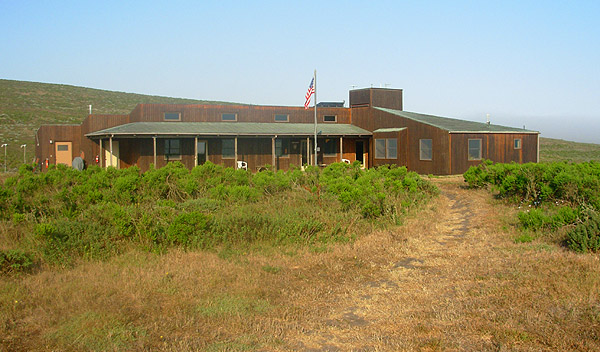 National Park service San Miguel Island ranger station and visitor center. The station hosts a small visitor center and quarters for both resident ranger and researchers. The station is powered by solar voltaic cells and wind turbines. Non-potable water is pumped from a nearby fresh water spring.